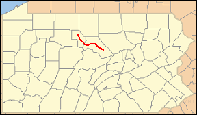 (Author - Dincher, source - PA State Parks Map)